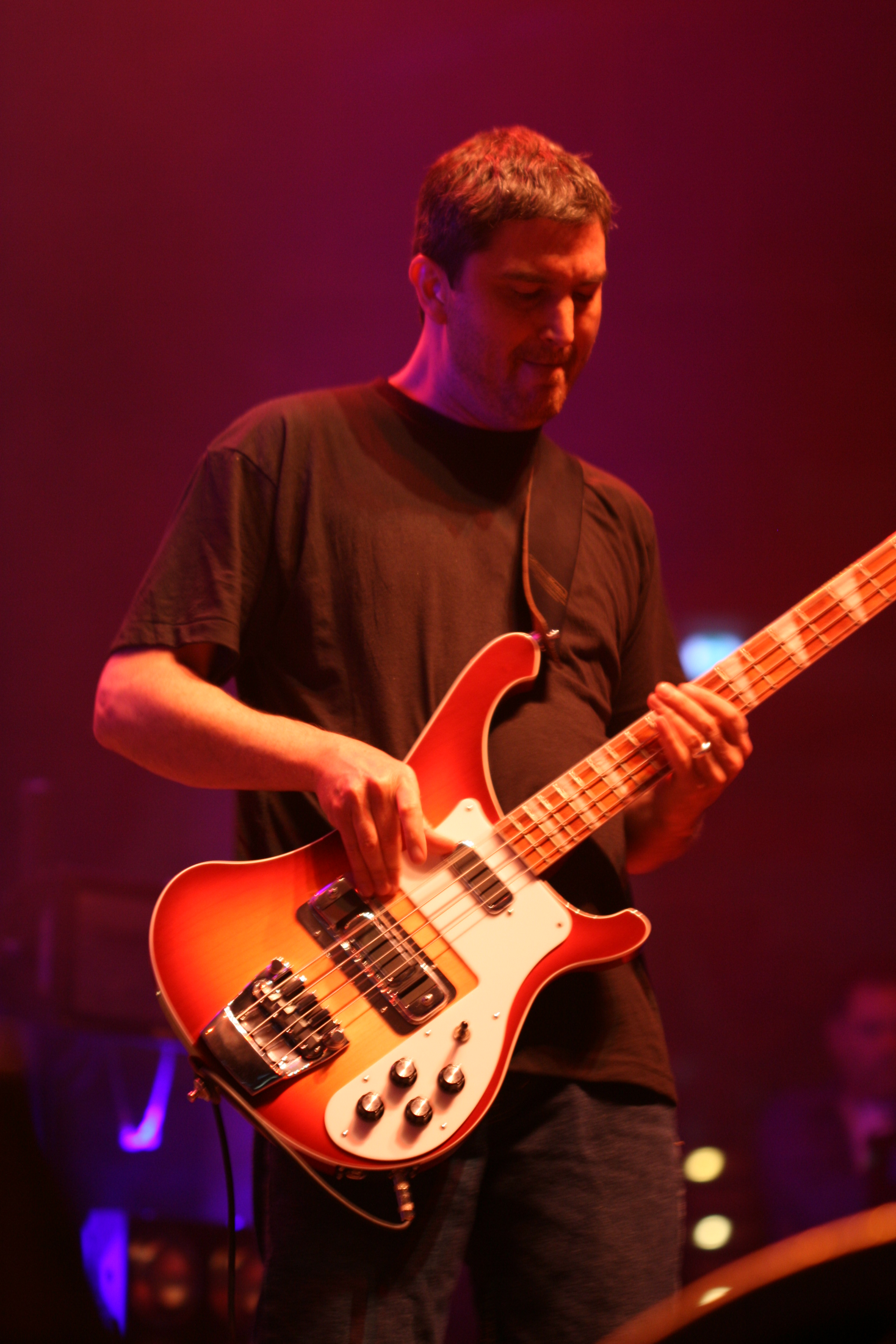 Dan Maines, bass guitarist of Clutch, stands on the Club Stage of Rock im Park-Festival 2013. Festivalsommer This photo was created with the support of donations to Wikimedia Deutschland in the context of the CPB project "Festival Summer".